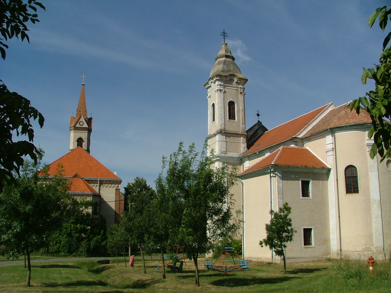 Vadosfa, the lutheran church (left) and the King Ladislau roman catholic church (right) This is a photo of a monument in Hungary, Identifier: 11808 This is a photo of a monument in Hungary, Identifier: 5169